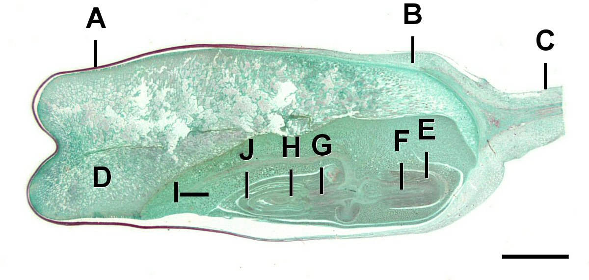 Photomicrograph of a Zea mays kernal. A=Pericarp, B=Aleurone, C=Tip cap, D=Endosperm, E=Coleorhiza, F=Radicle, G=Hypocotyl, H=Plumule, I=Scutellum, J=Coleoptile. Scale=1.4mm.